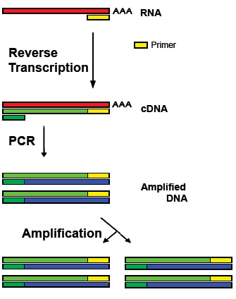 overview of rt-pcr technique